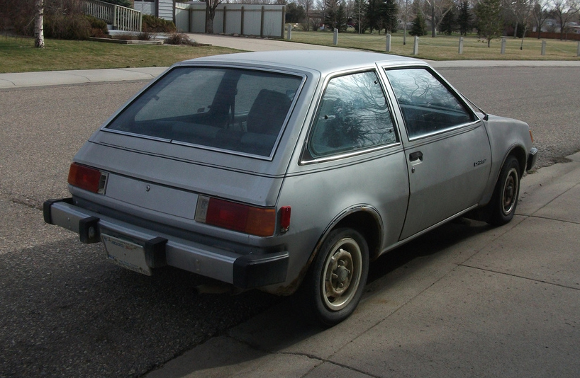 Plymouth Champ was a sibling to the Dodge Colt from 1979 to 1982. Both of course where badge engineered from the Mitsubishi Mirage/Colt.